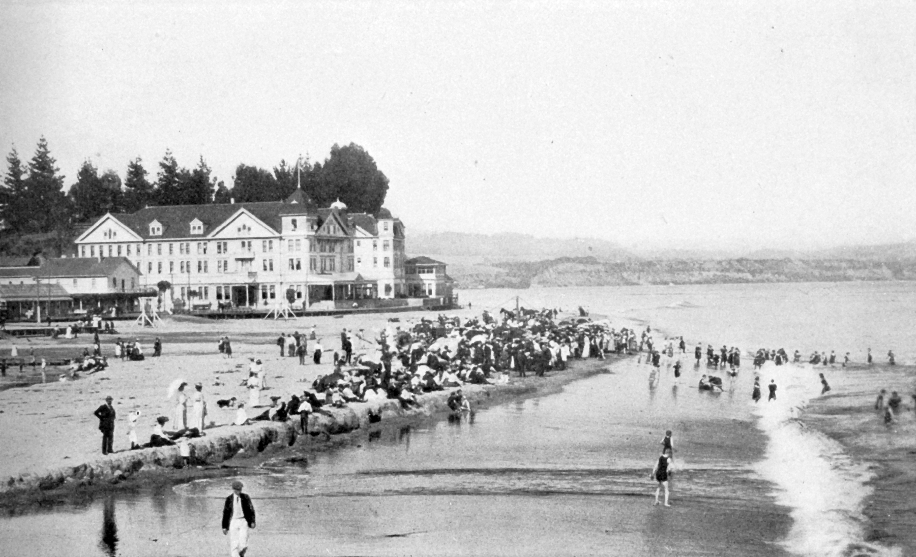 Beach scene at Capitola, a few miles to the east of Santa Cruz. In: "The City of Santa Cruz and VicinityCalifornia." Published by The Santa Cruz Board of Trade. 1905. Capitola, California, United States